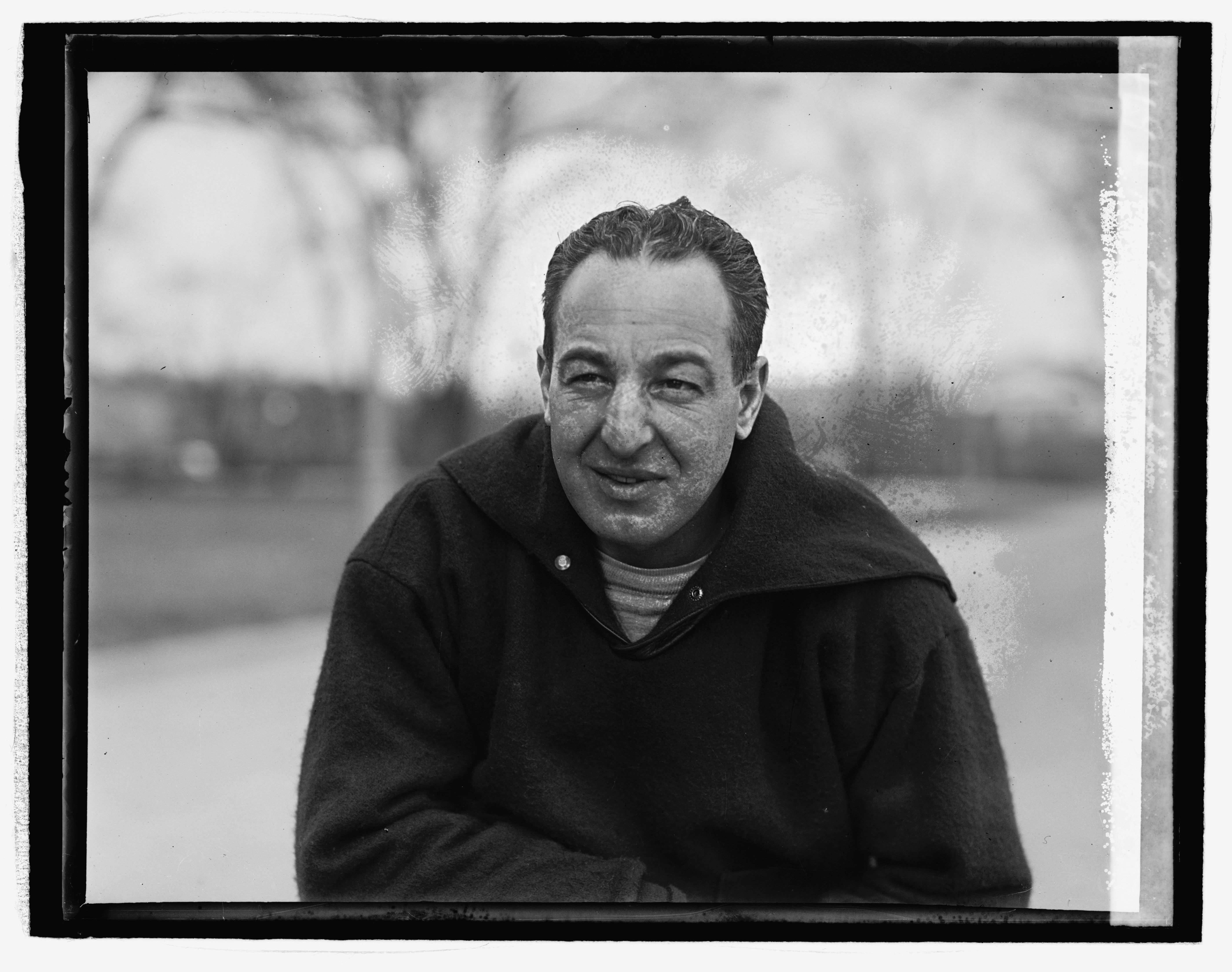 Title: Lou Little, 1927 Abstract/medium: 1 negative : glass ; 4 x 5 in. or smaller